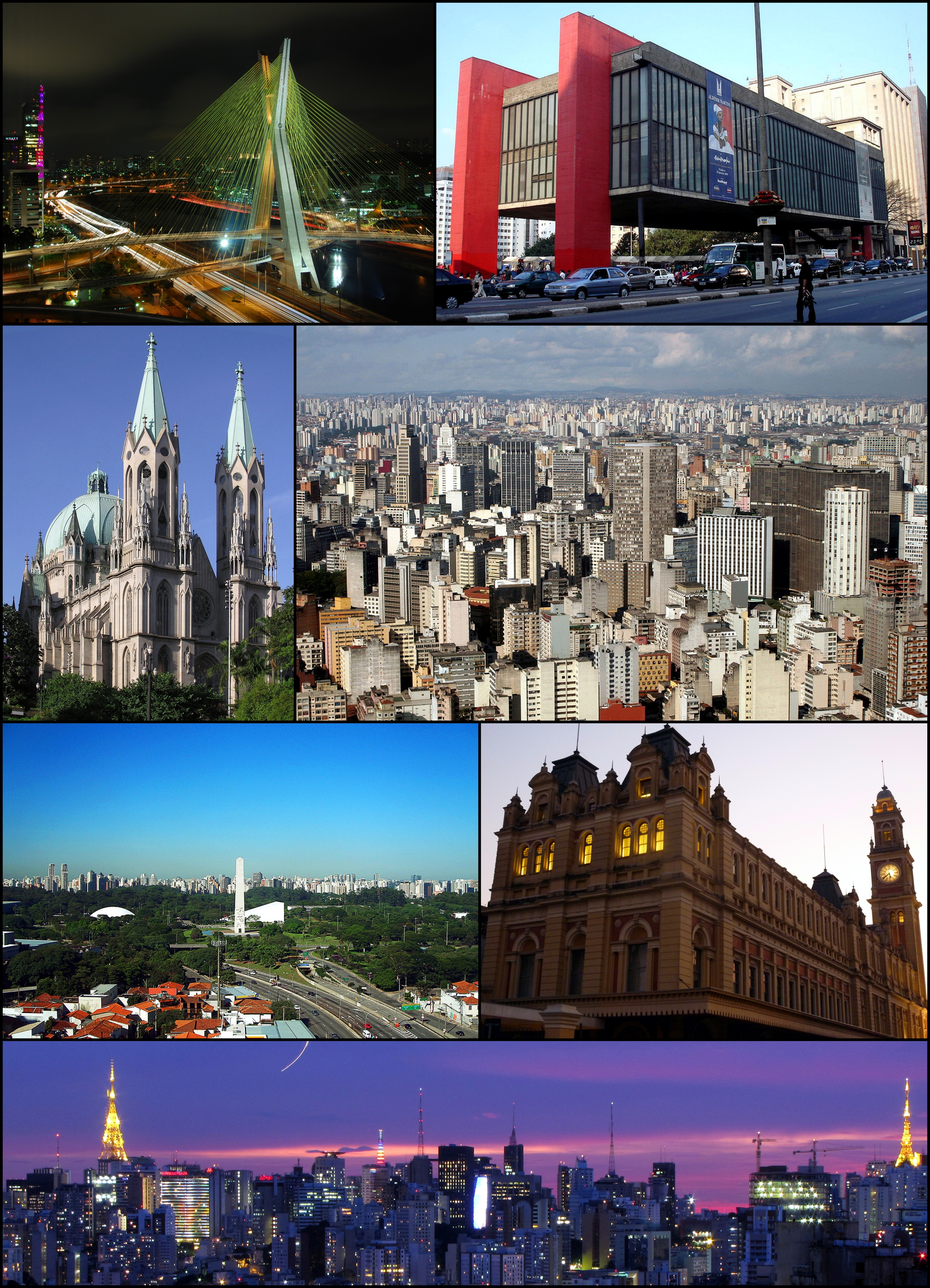 Photo montage of the city of São Paulo, Brazil. From the top, left to right: Octávio Frias de Oliveira Bridge; São Paulo Museum of Art at Paulista Avenue; São Paulo Cathedral; overview of the historic downtown; Ibirapuera Park; Luz Station and panoramic view of the city at night.